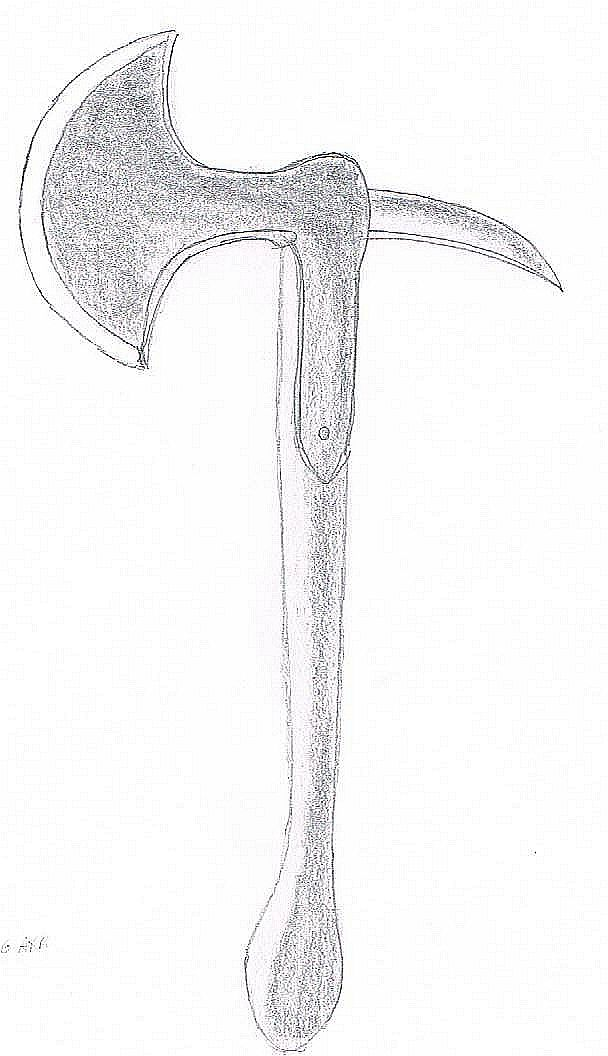 Naval-Boarding-Axe